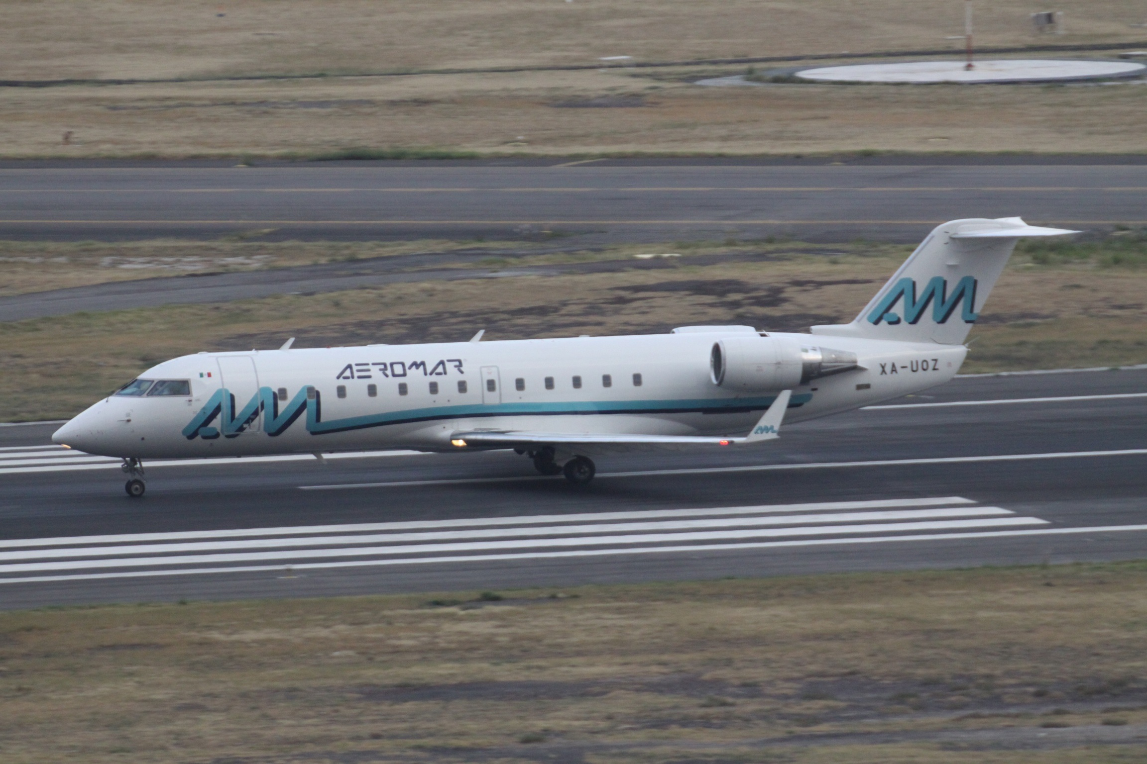 At Mexico City International Airport